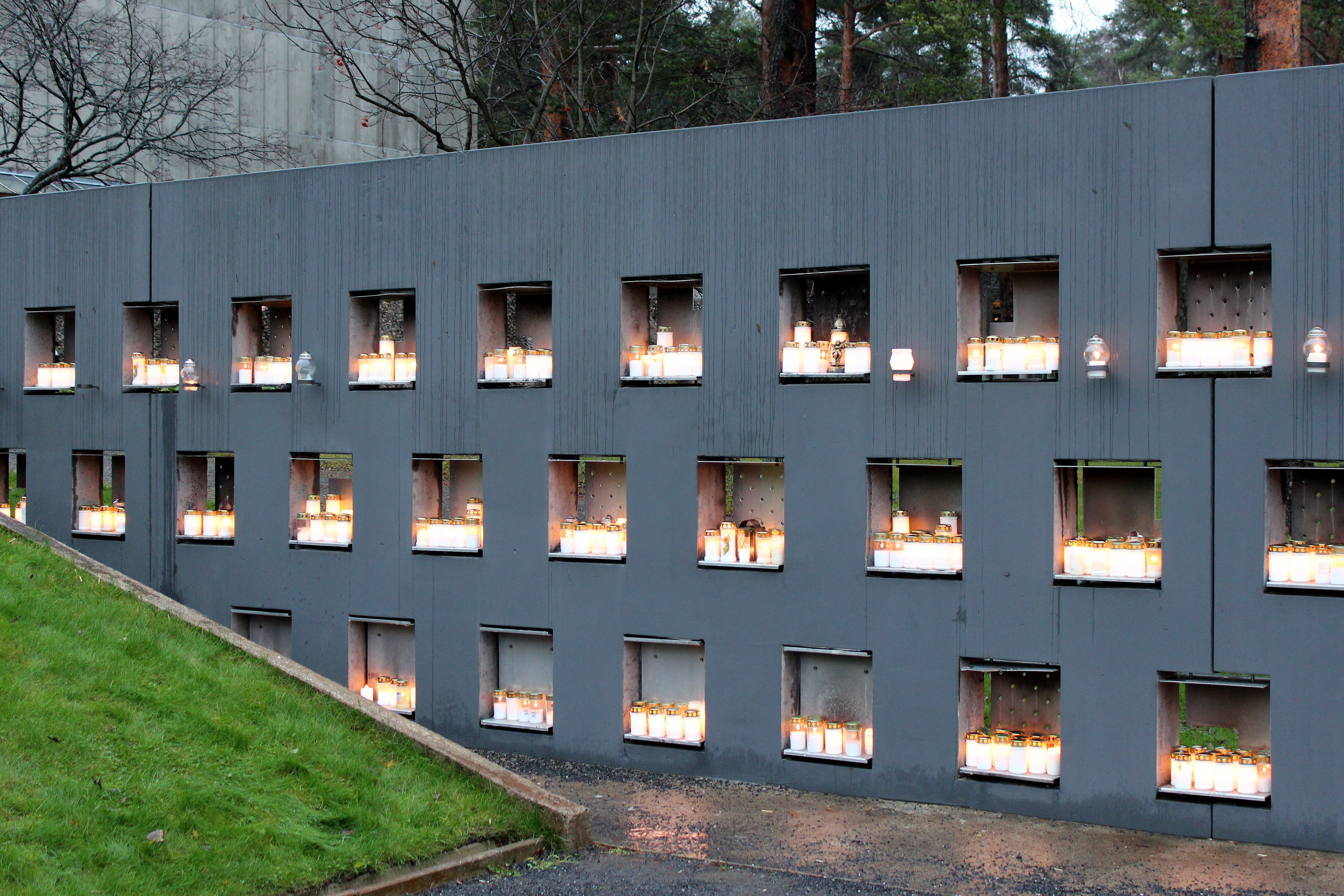 The memorial place for those buried elsewhere in the Oulu Cemetery is filled with candles at the All Saints' Day (the observance takes place on the Saturday between 31 October and 6 November in Finland).